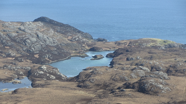 The inlet or loch of Bun Sruth Bun Sruth a small loch on South Uist